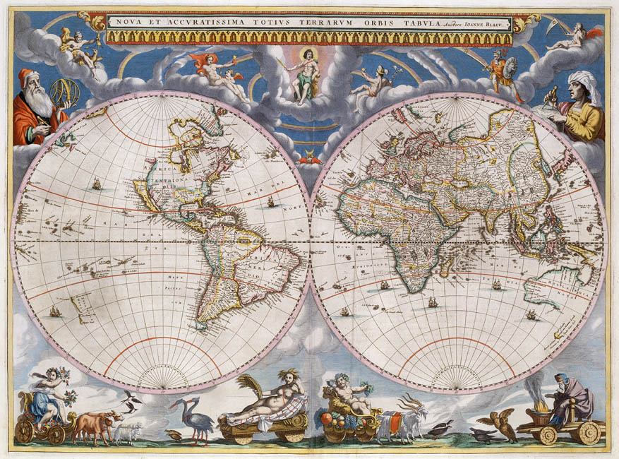 NOVA ET ACVRATISSIMA TOTIVS TERRARVM ORBIS TABVLA World Map